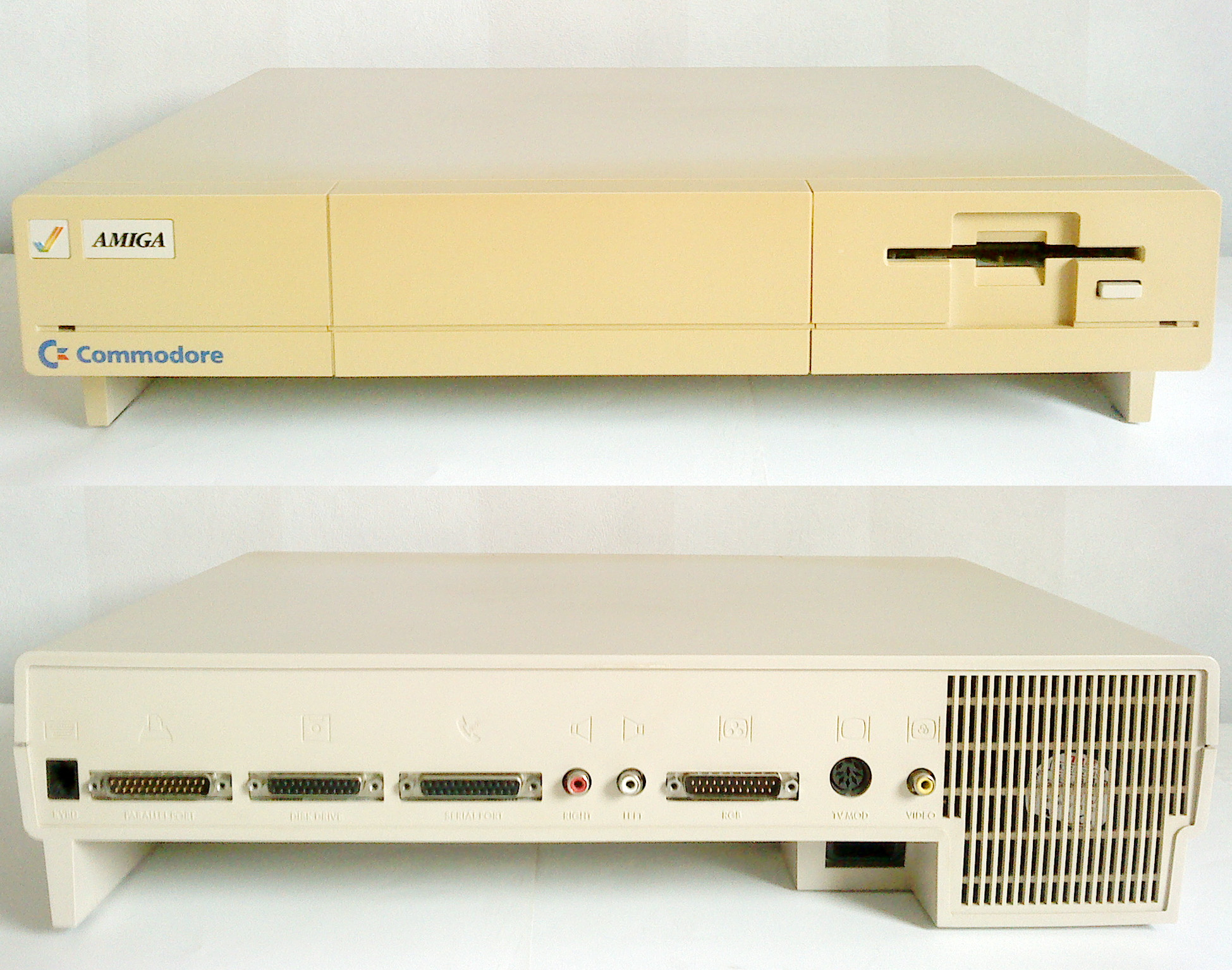 Commodore Amiga 1000 computer, front and back